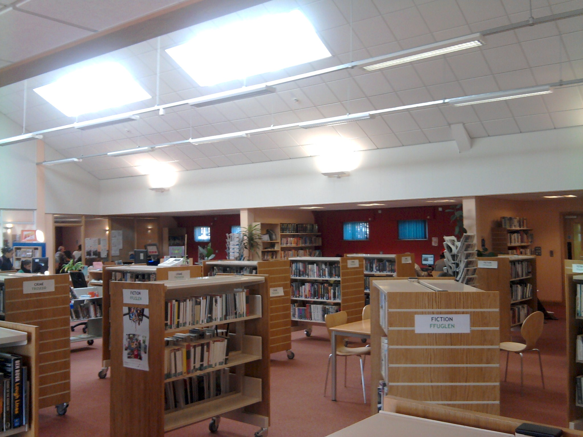 The interior of Grangetown Library in Cardiff